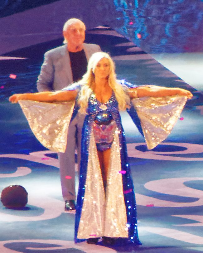 Charlotte posing with the WWE Divas Championship during her entrance prior her match at WrestleMania 32 in April 3, 2016.